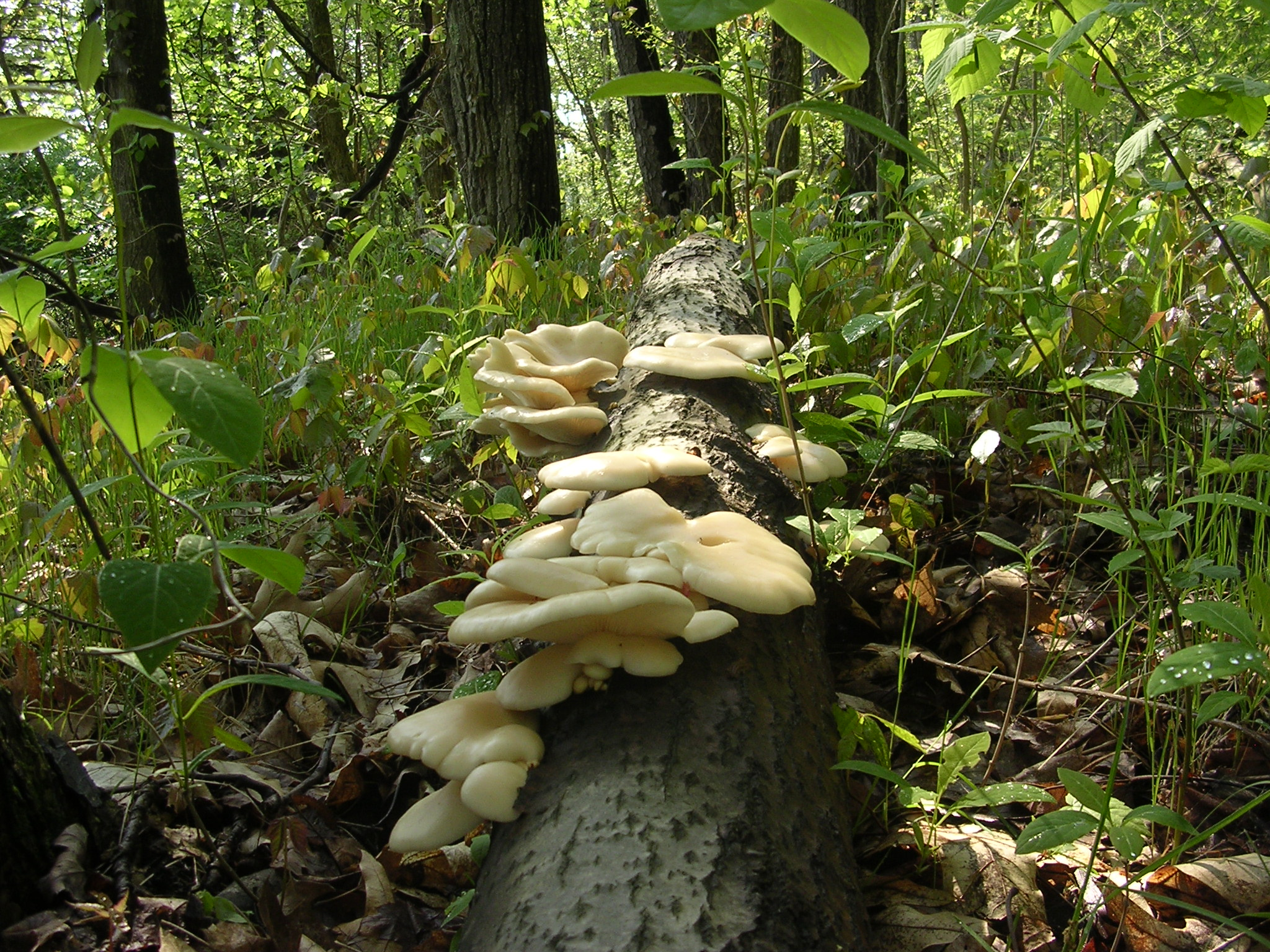 Pleurotus populinus O. Hilber & O.K. Mill. Location: Moraine State Park, Butler Co., Pennsylvania, USA Observation Notes: Found close to the Lake Arthur growing on some kind of Poplar, these were sort of yellow just as in the photo.[admin – Sat Aug 14 02:03:04 0000 2010]: Changed location name from ‘Moraine State Park, Butler County, PA’ to ‘Moraine State Park, Butler Co., Pennsylvania, USA’ For more information about this, see the observation page at Mushroom Observer.